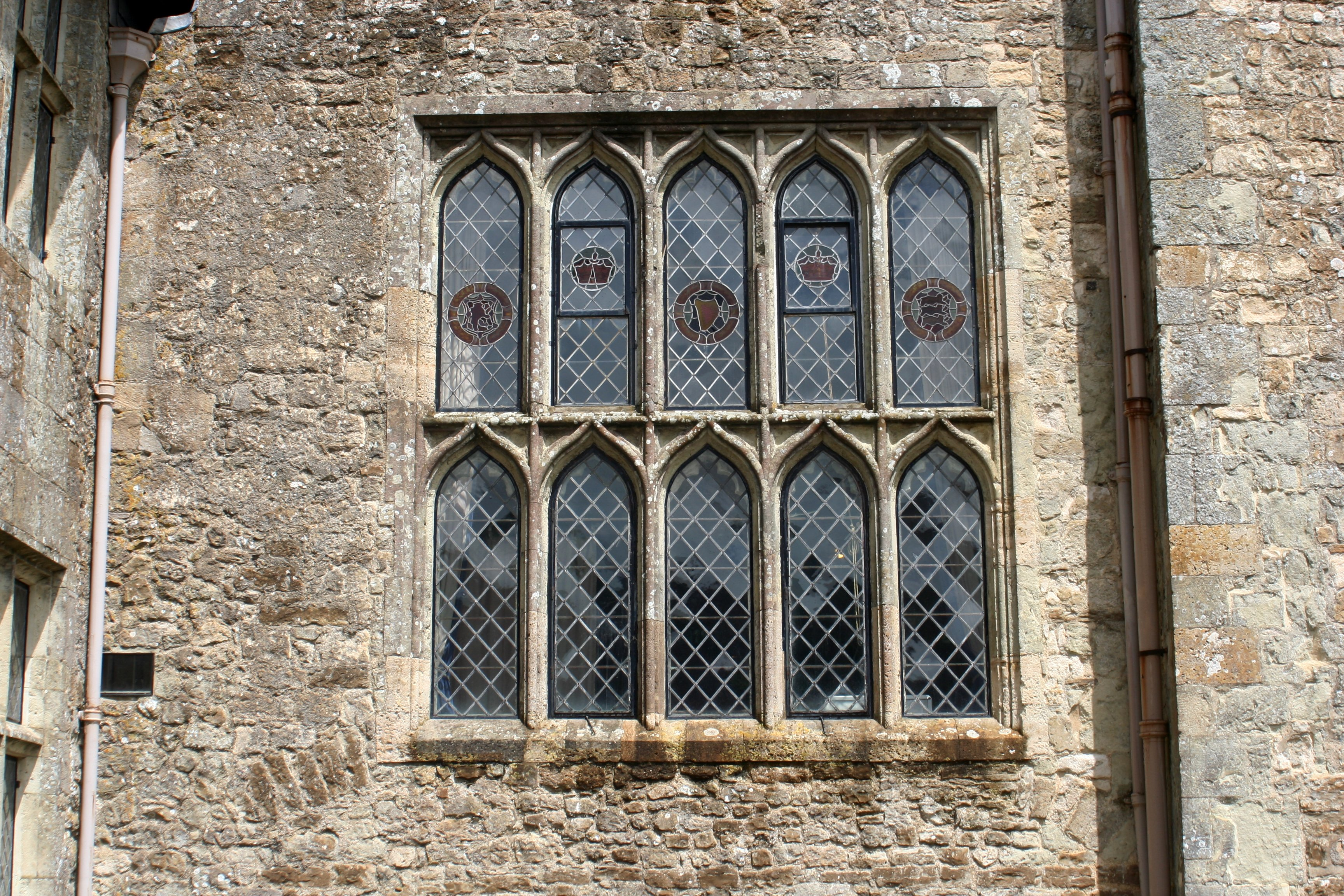 Window of Charles I's room at Carisbrooke Castle, out which he tried to escape.